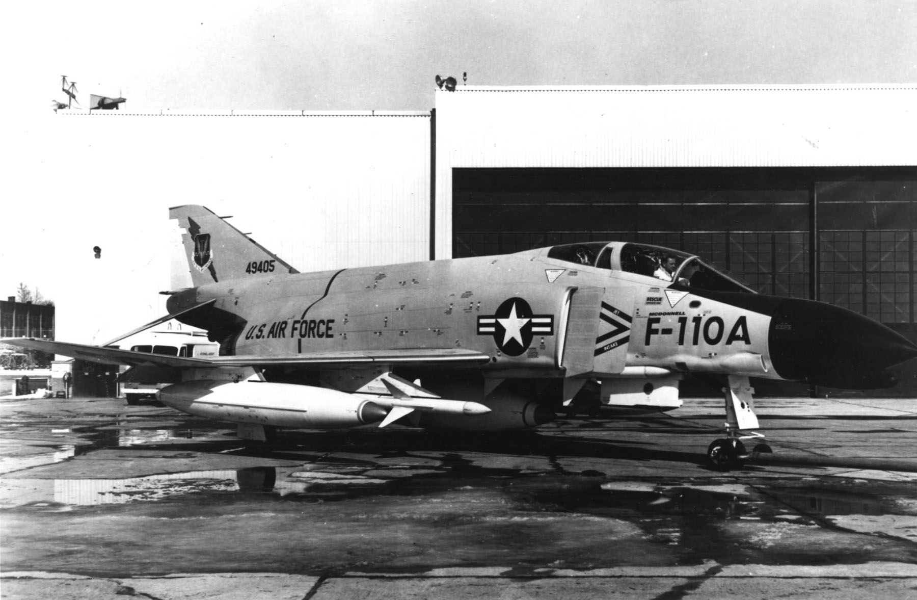 This McDonnell F-4B-9i (F4H-1) from the U.S. Navy (BuNo 149405) was redesignated F-110A and later F-4C with USAF S/N 62-12168. (U.S. Air Force photo)